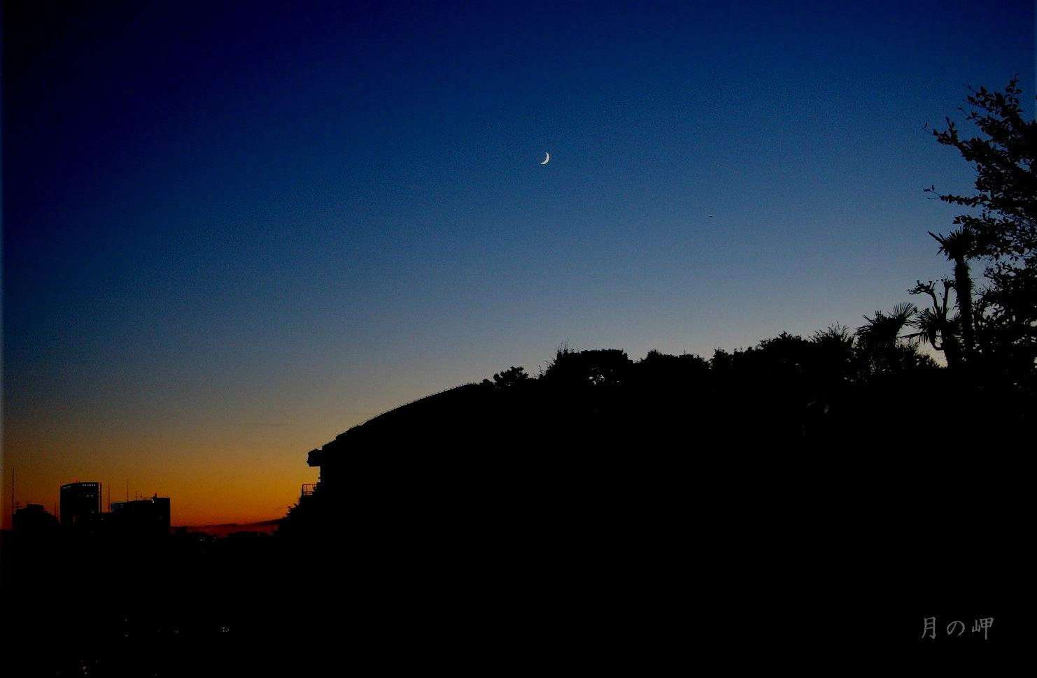 This photograph was taken from the on the viaduct which links a national road number 1 and a Hijiri slope at the backside of Sumitomo Realty Development Mita twin building.